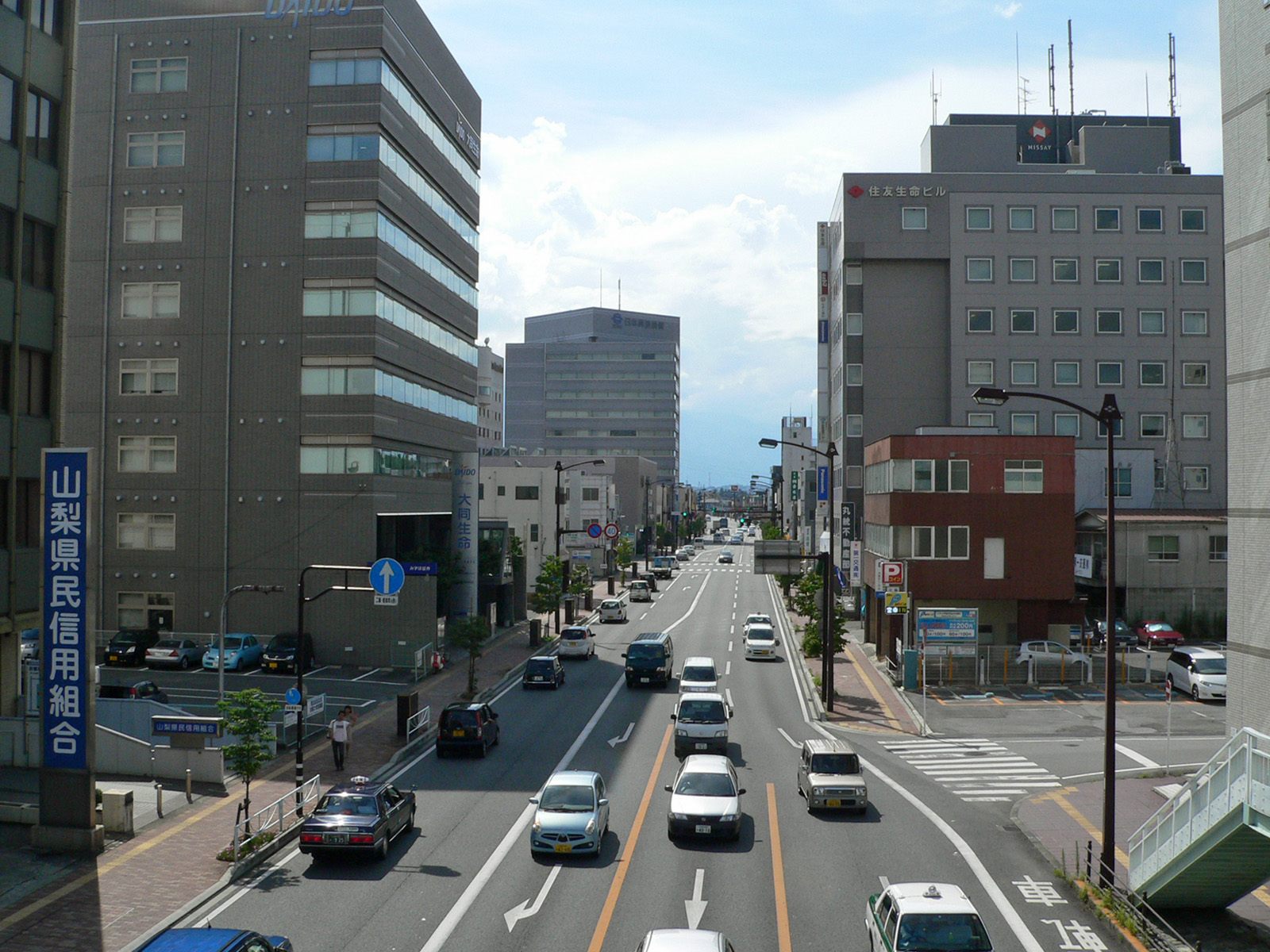 Kofu_aioi